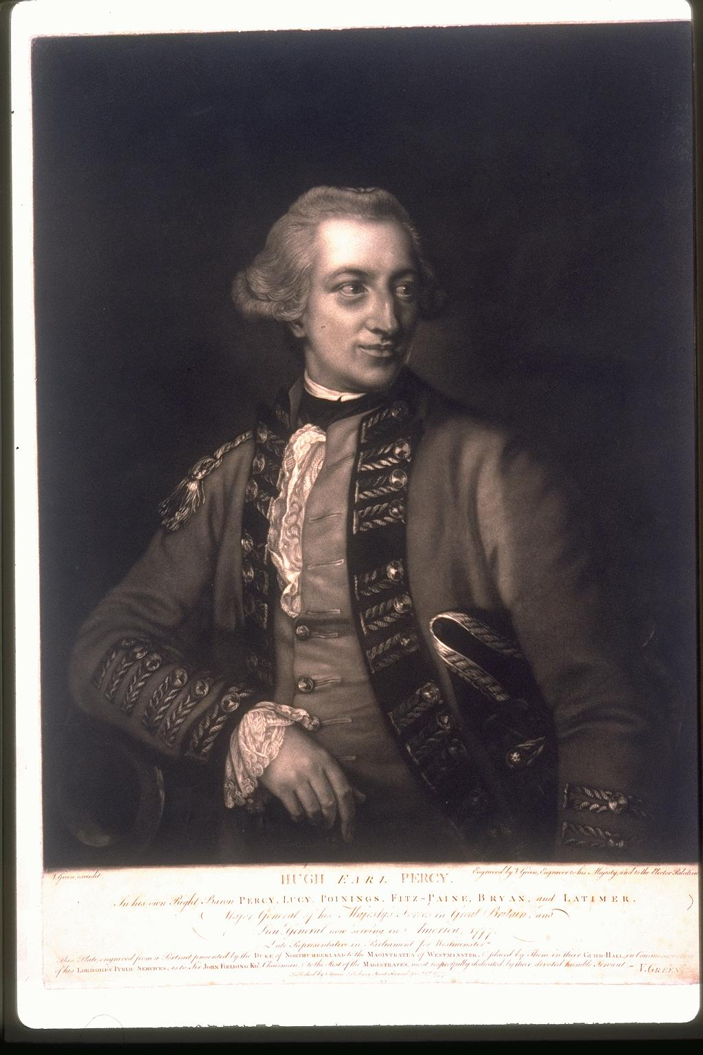 Hugh Percy, 2nd Duke of Northumberland (1742-1817)